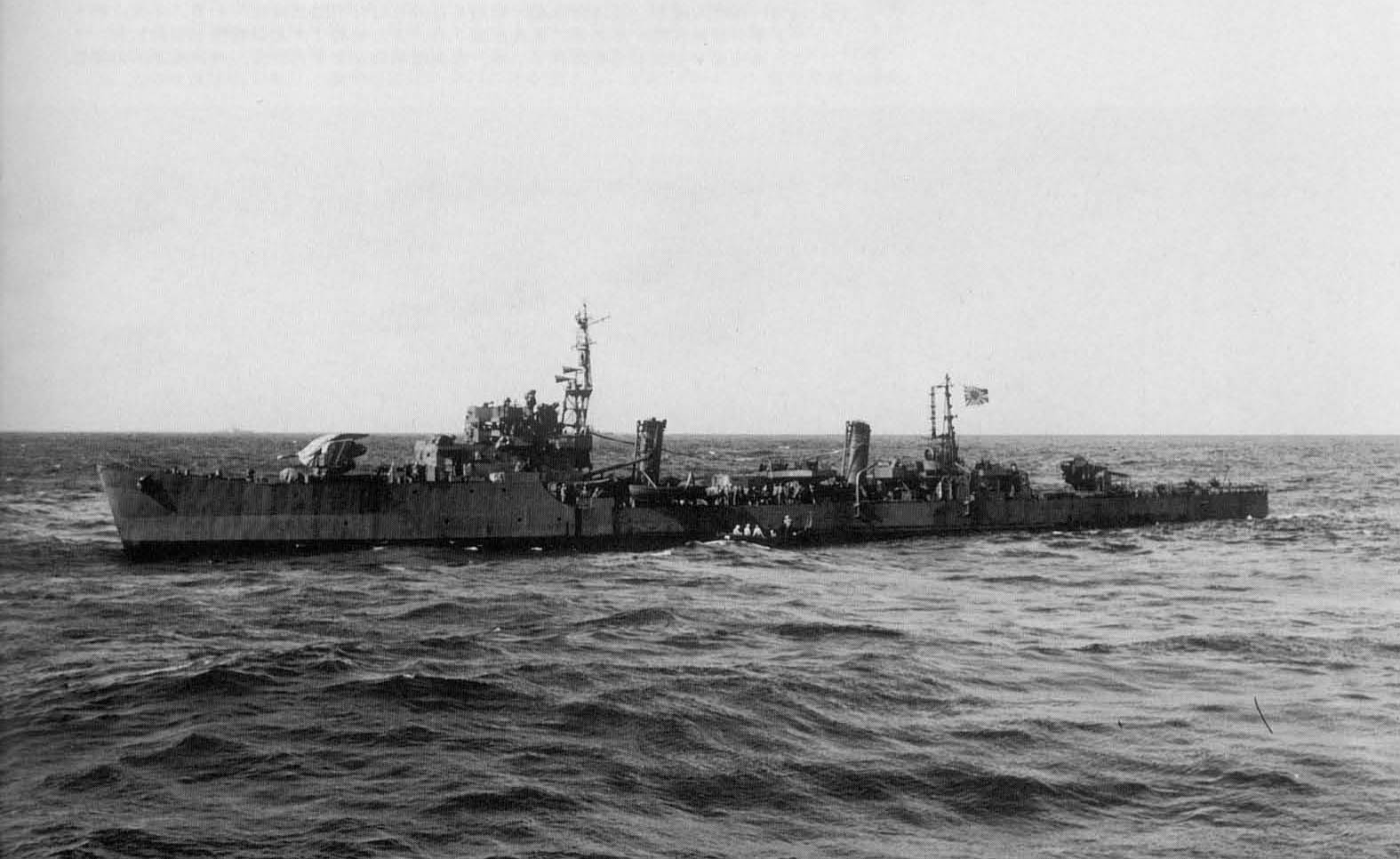 Inperial Japanese destroyer Hatsuzakura (service 1944-1947, Tachibana class), later Soviet destroyer Vetrenyi (service 1947-1959), in Tokyo Bay.